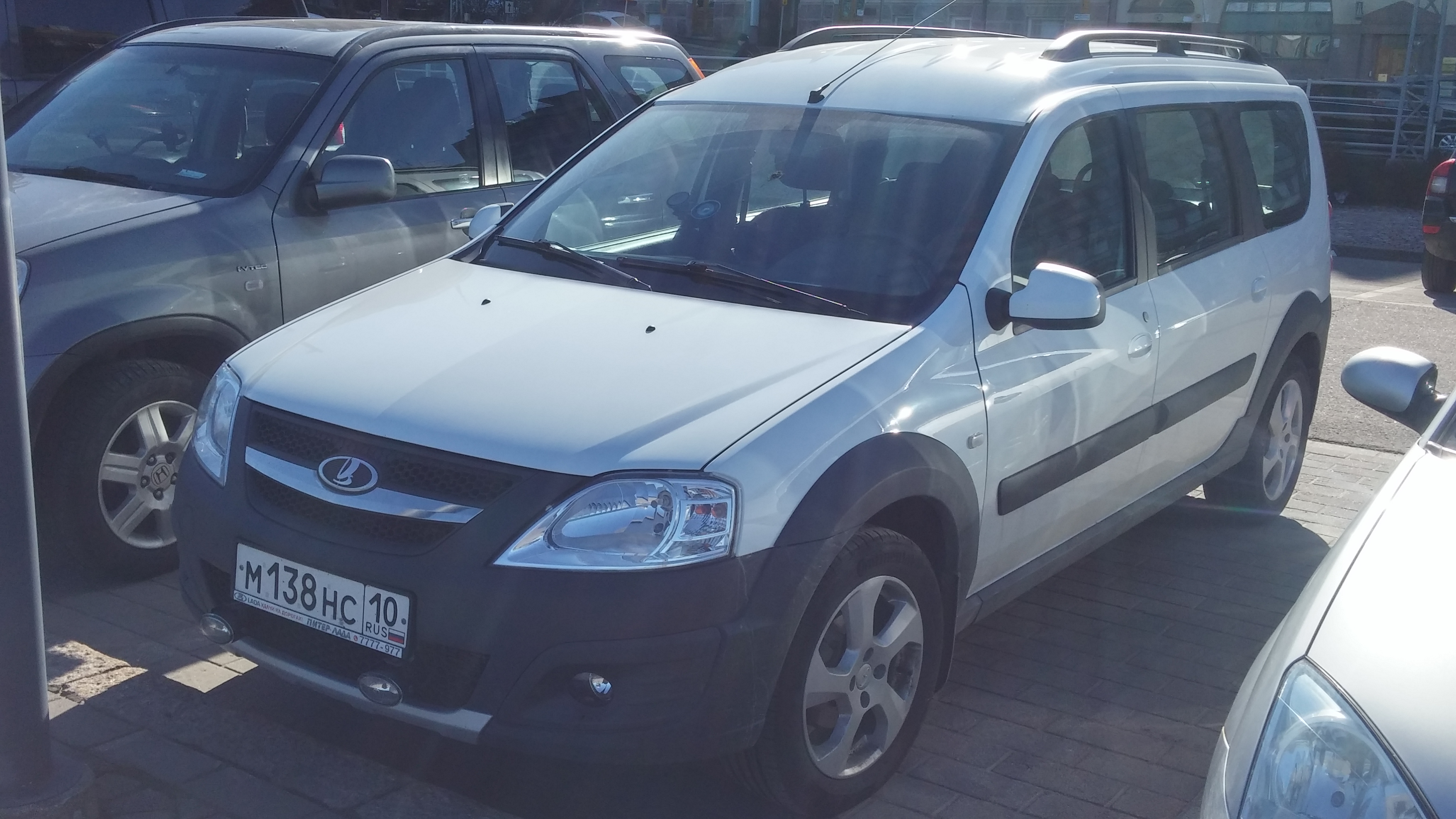 Lada Largus